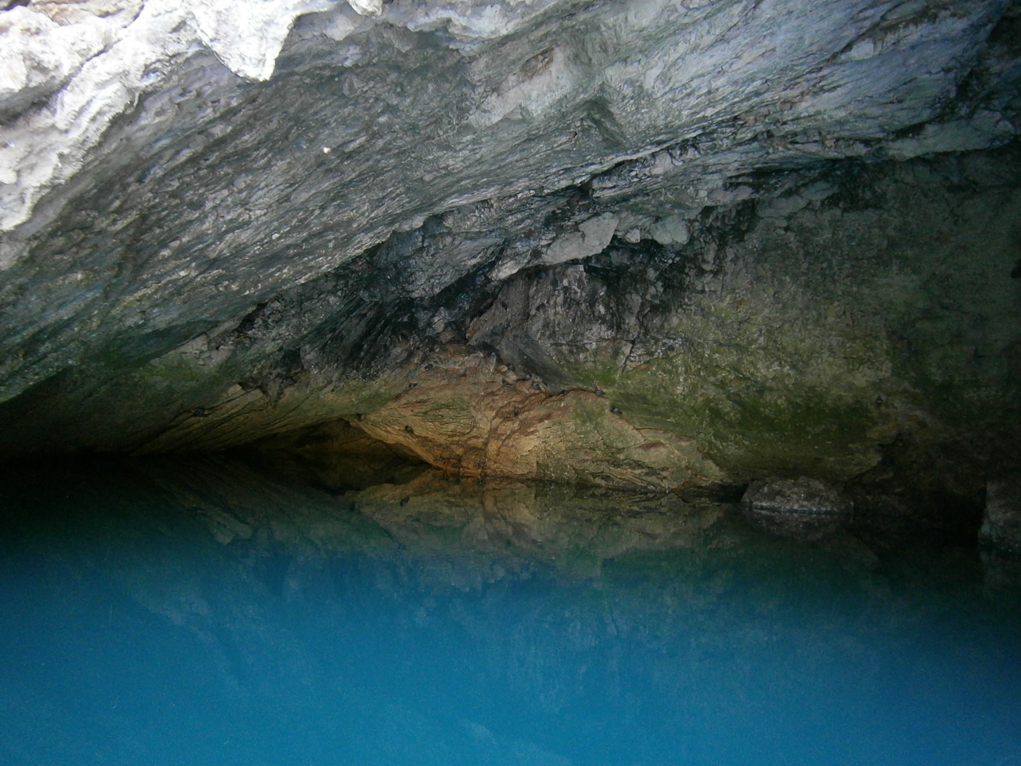 The well of the river Buna inside a cave